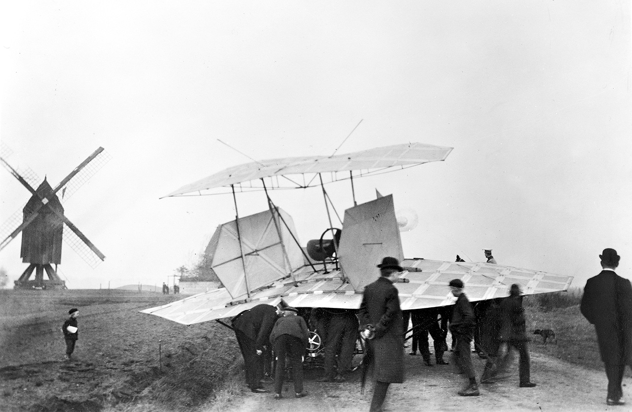 "Jatho biplane" 1907 at Vahrenwalder Heide near Hanover. In the background left the "Lister Bockwindmühle".